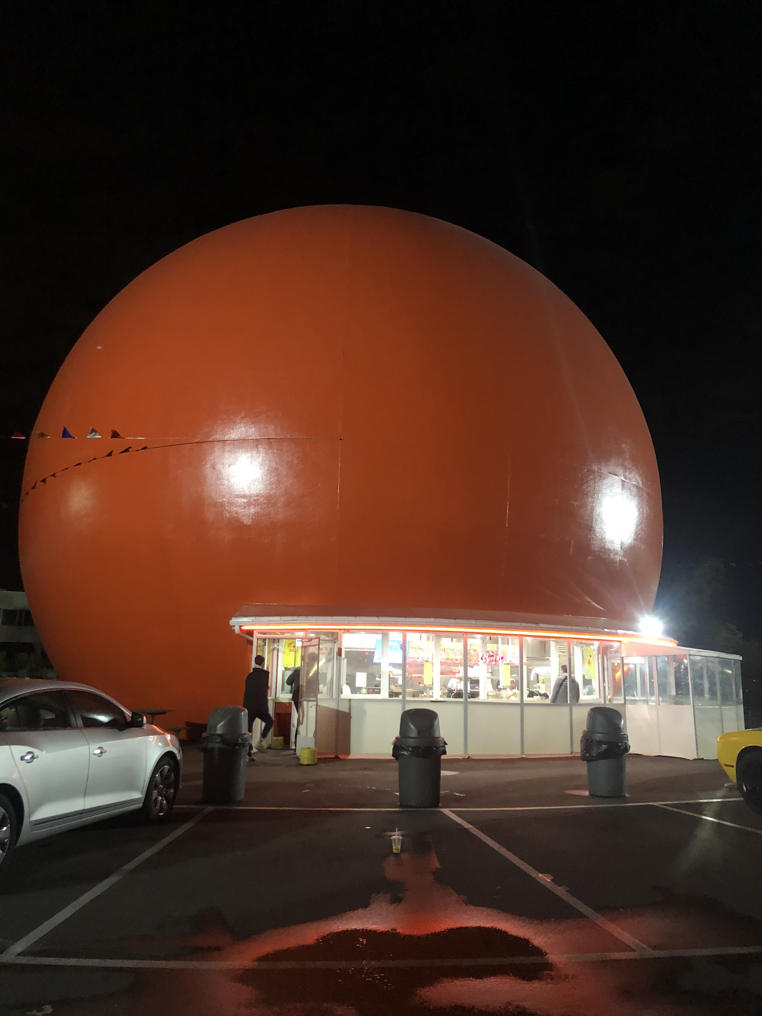 Gibeau Orange Julep storefront at night